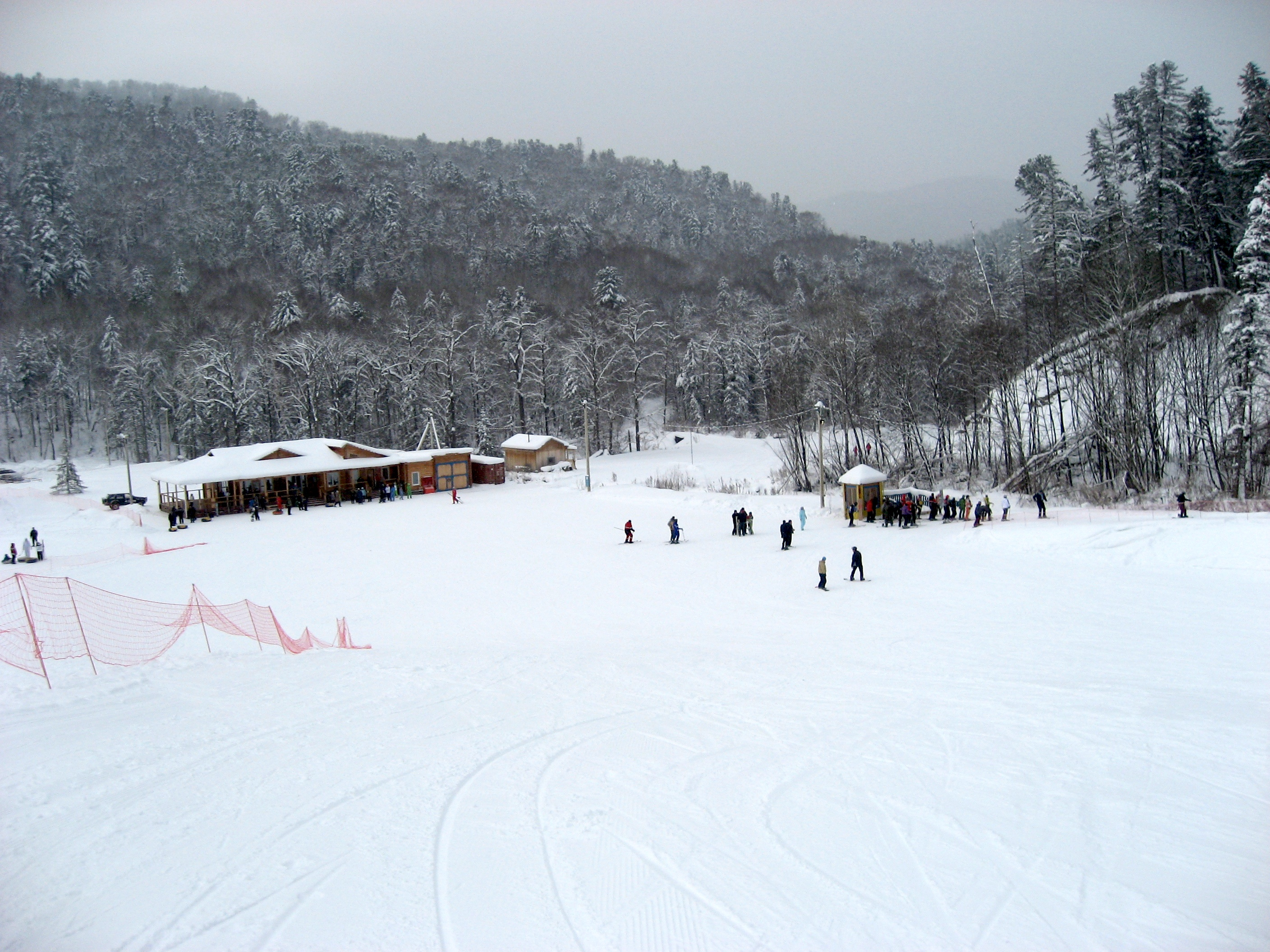 Mountain ski resort in Vostok, Primorsky Kray, Russia